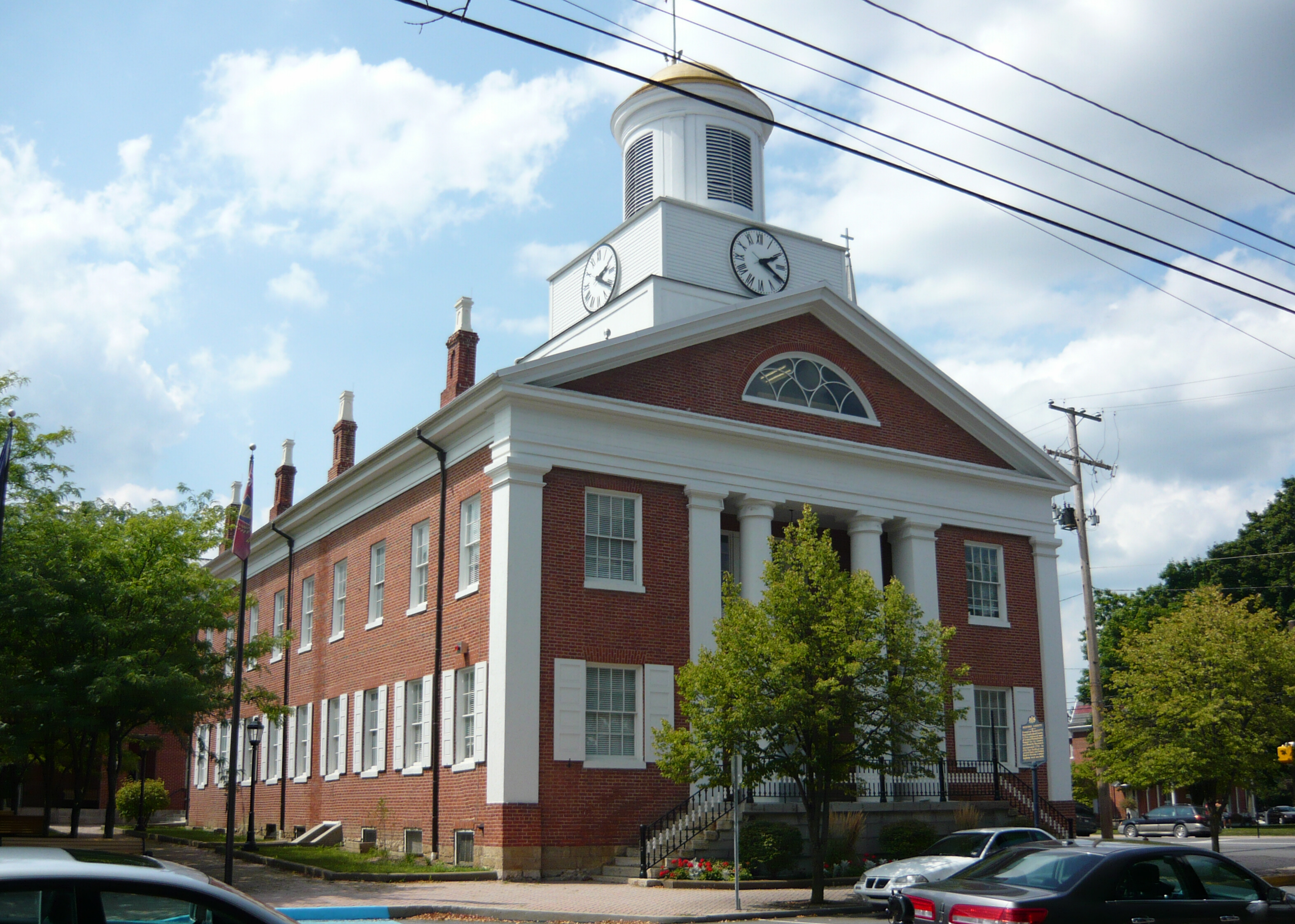 Bedford County Courthouse, 200 South Juliana Street (corner of West Penn Street), Bedford, Pennsylvania. Built: 1828. Builder: Solomon Filler.